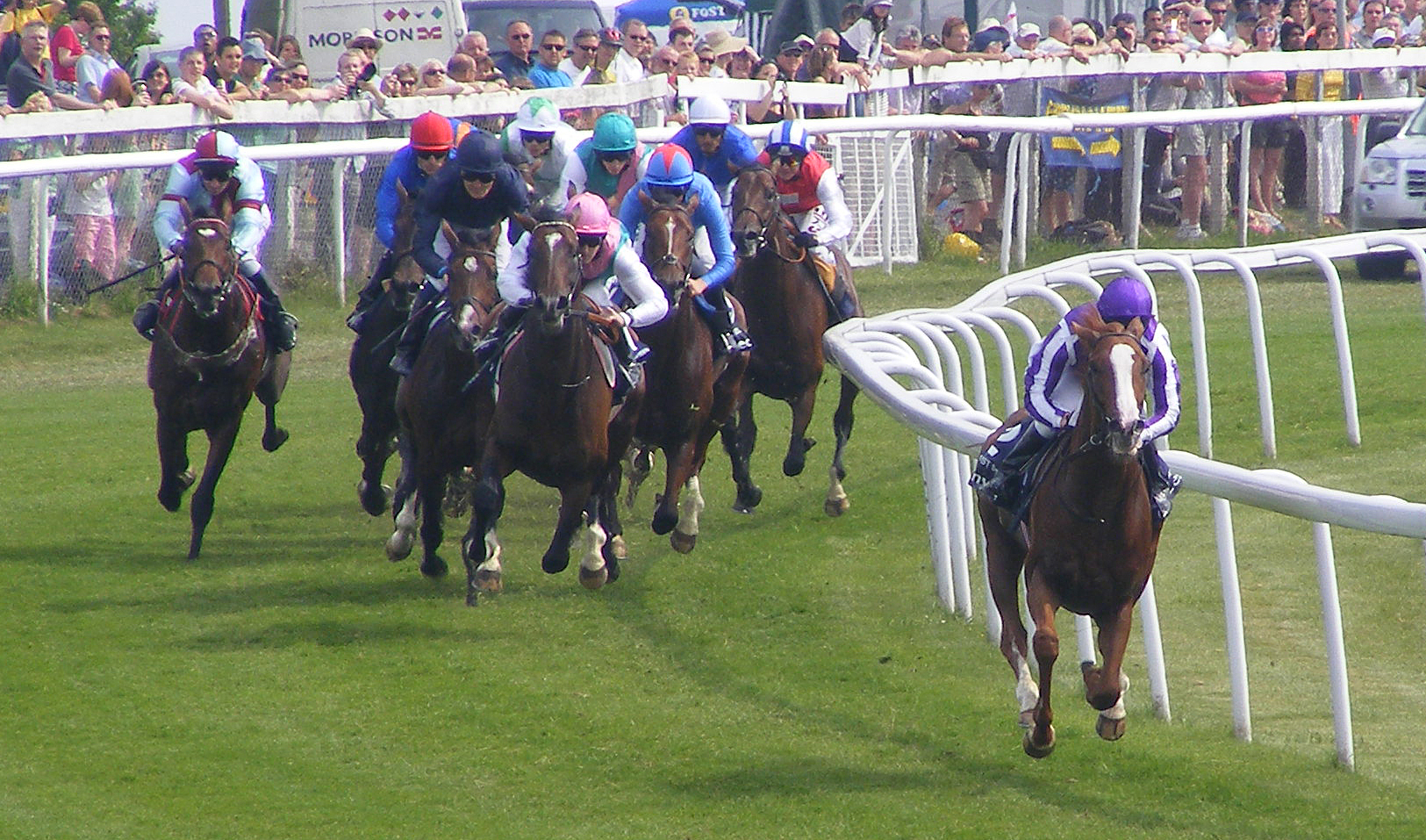 Investec Epsom Derby 2010 - At First Sight leading round Tattenham Corner